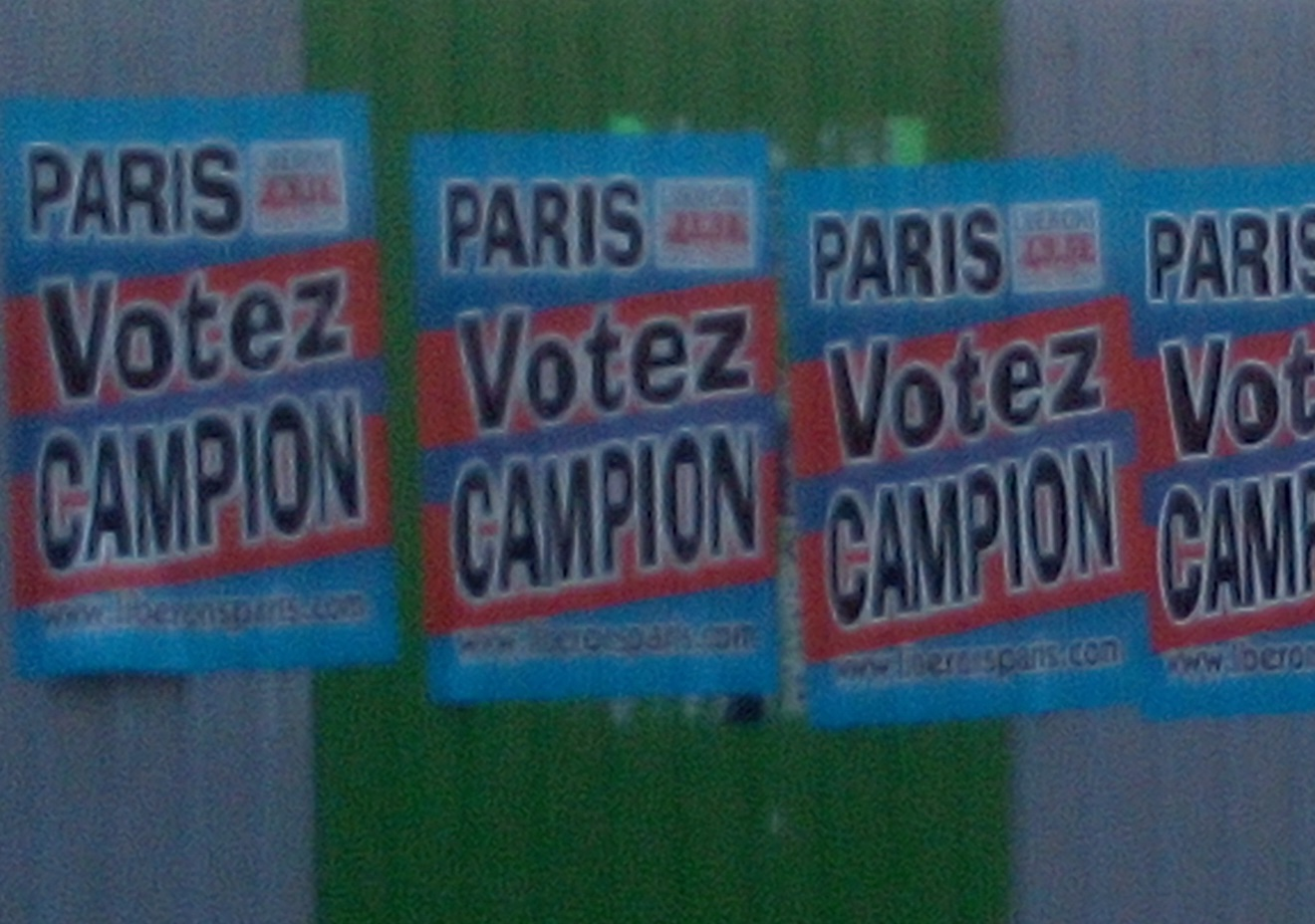 Posters of Marcel Campion for the municipal elections in Paris, 2020.